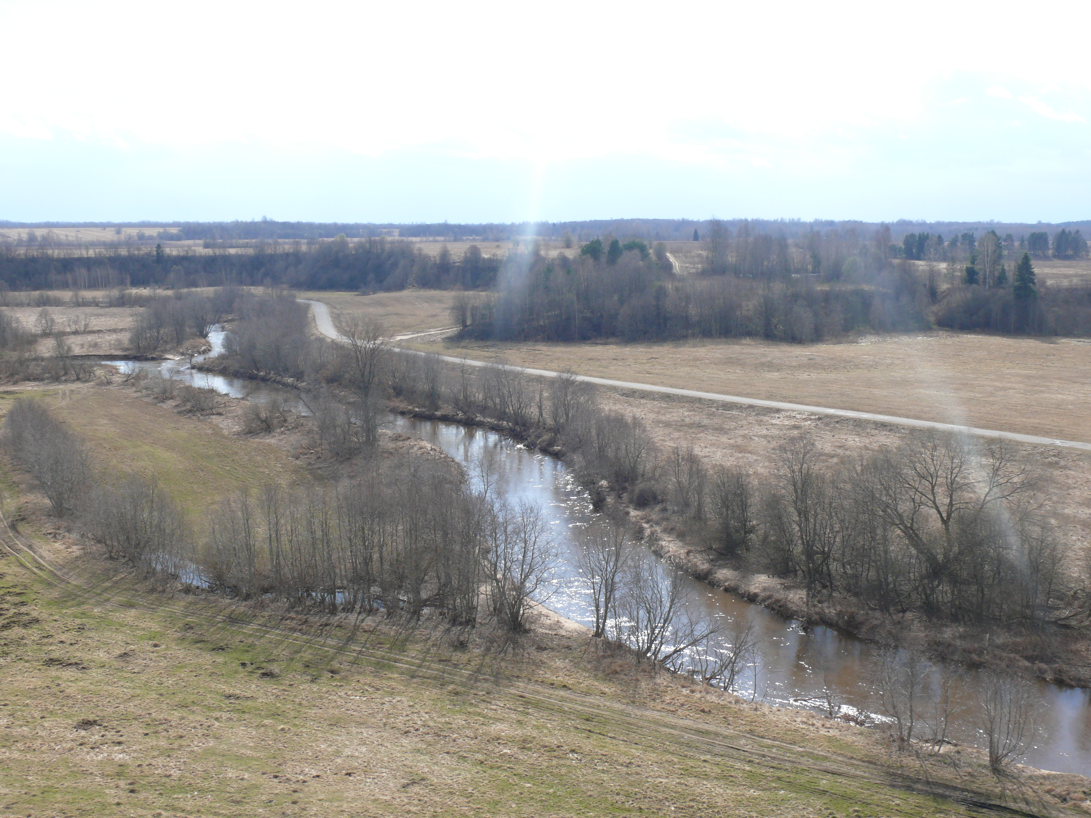 Kunianka river falling into Yavon river. Denyansky district, Novgorod oblast, Russia